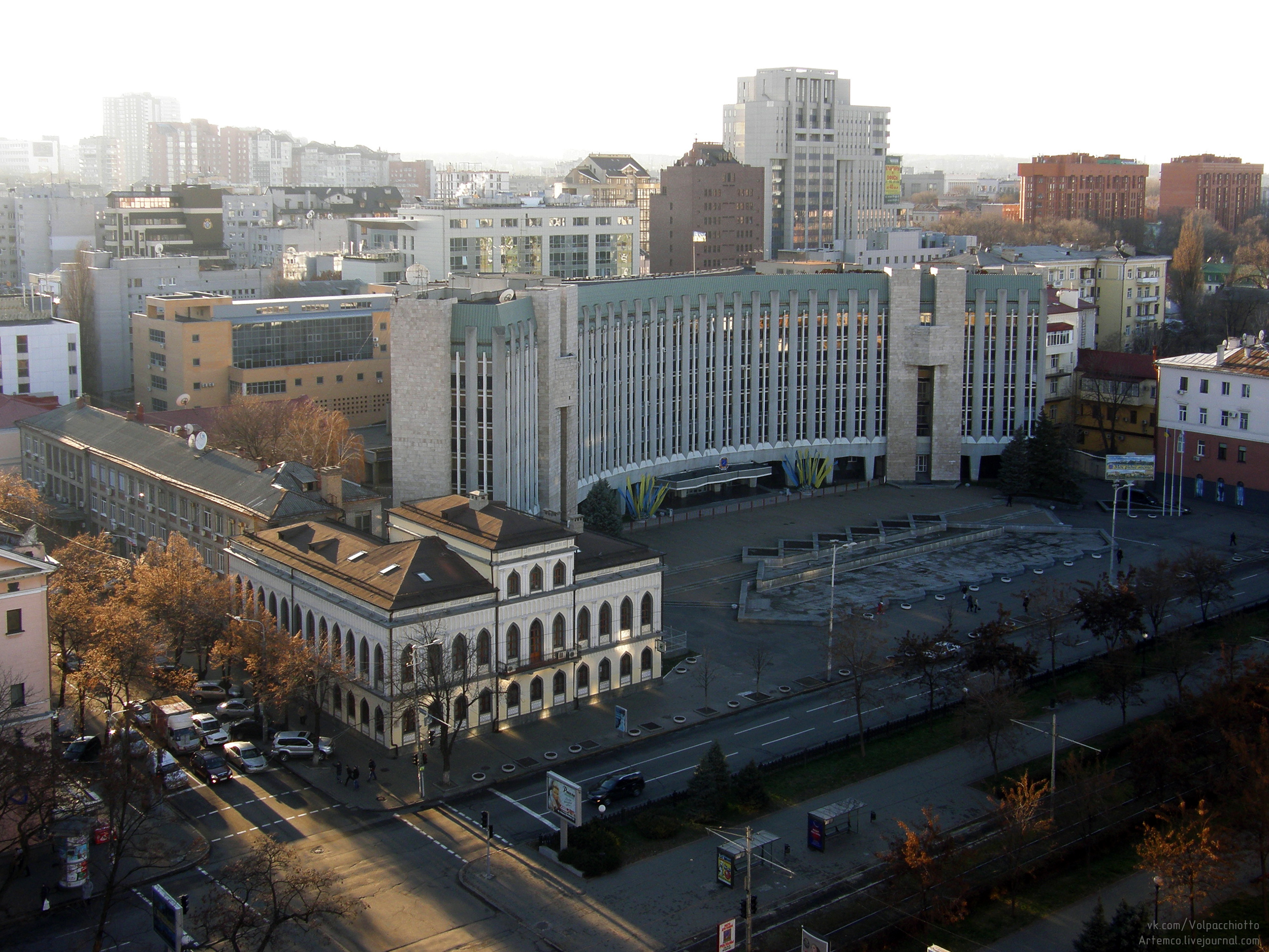 Dnipropetrovsk City Council